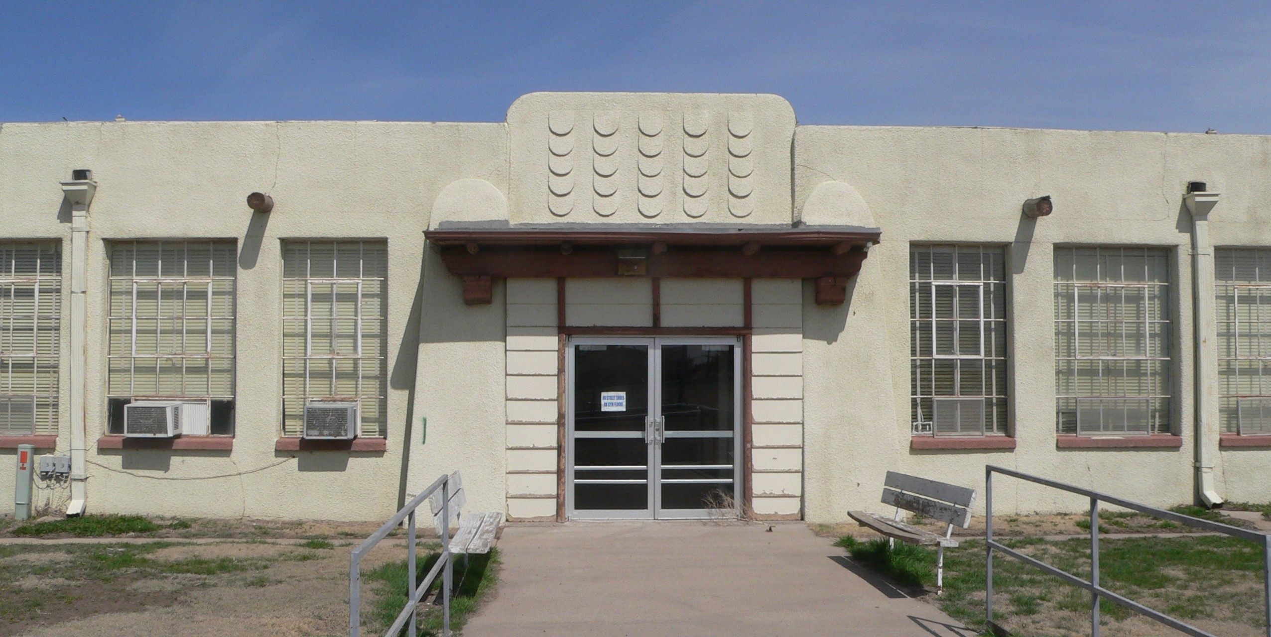 Shallow Water School, in Shallow Water, Kansas: main entrance, in center of south side of building.